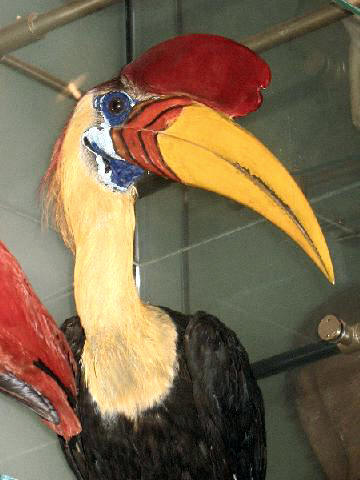 Description: Knobbed Hornbill (Aceros cassidix) - Source: own work - Location: American Museum of Natural History, New York - Author: self, User:Stavenn